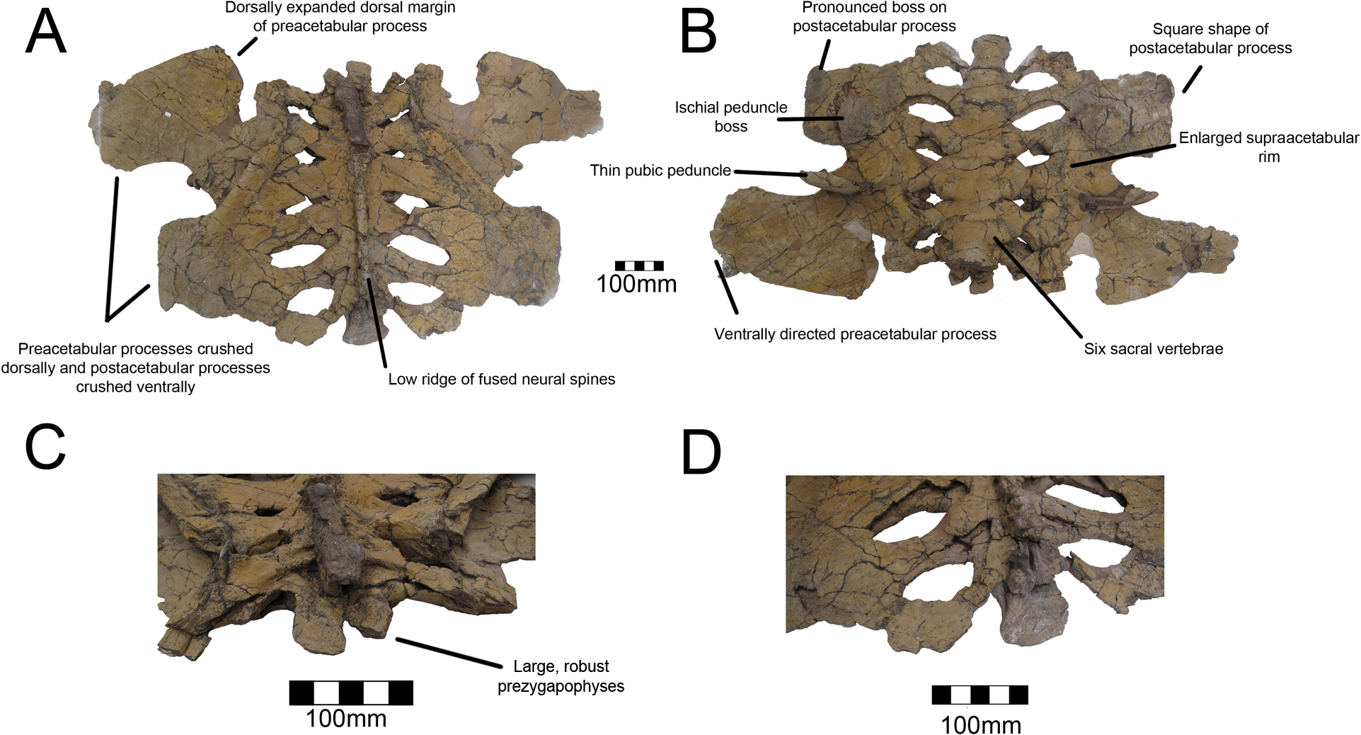 Nothronychus (UMNH VP16420) sacrum and ilium. Sacrum and ilia in (A) dorsal and (B) ventral view with ilia squashed laterally. (C) Cranial and (D) caudal views. Figure explanations on figure. Scale = 100 mm.